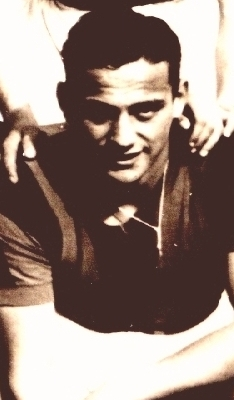 San Lorenzo footballer Héctor Rial